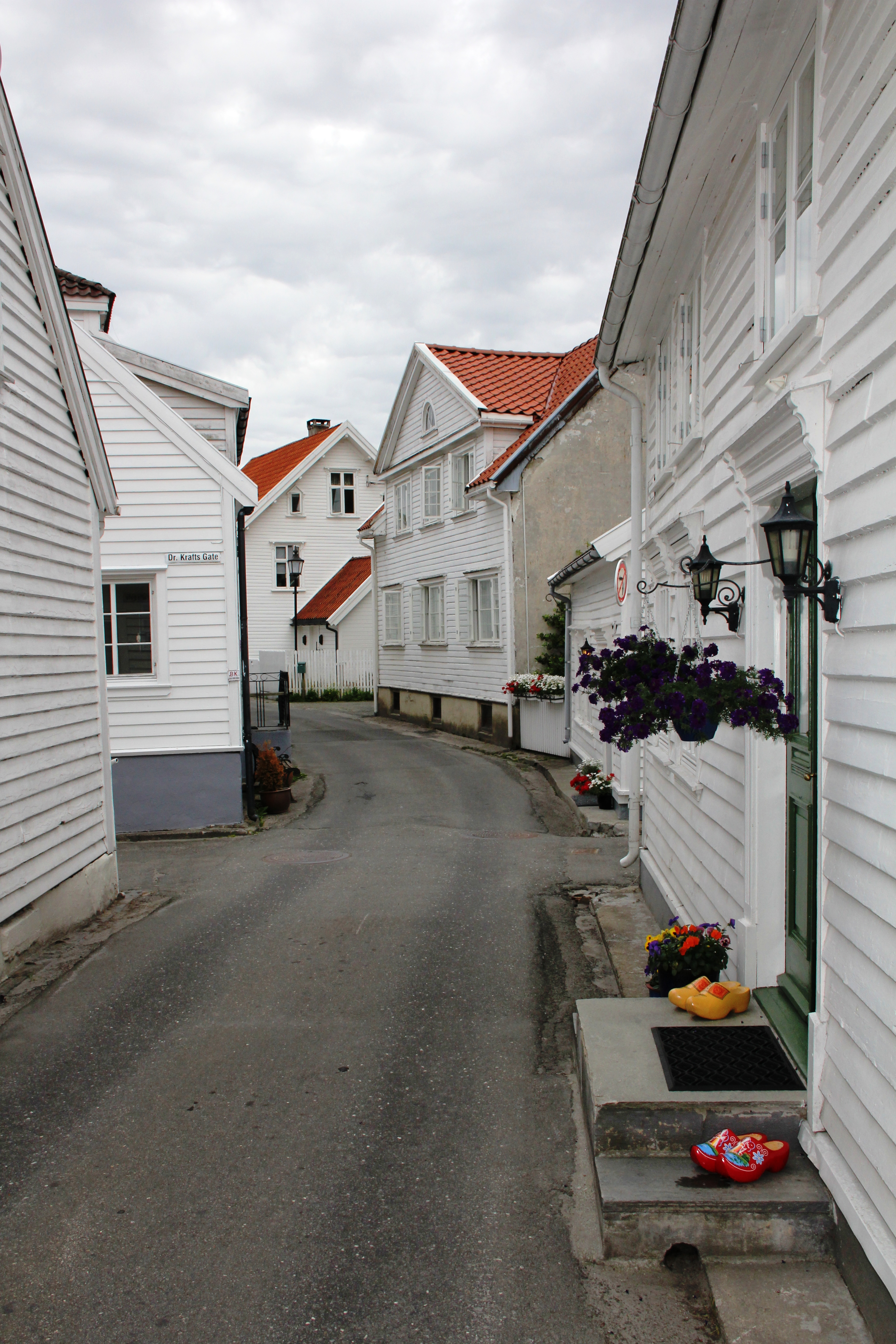 View from Nesgaten in Flekkefjord, with the crossing of Dr. Krafts Gate.